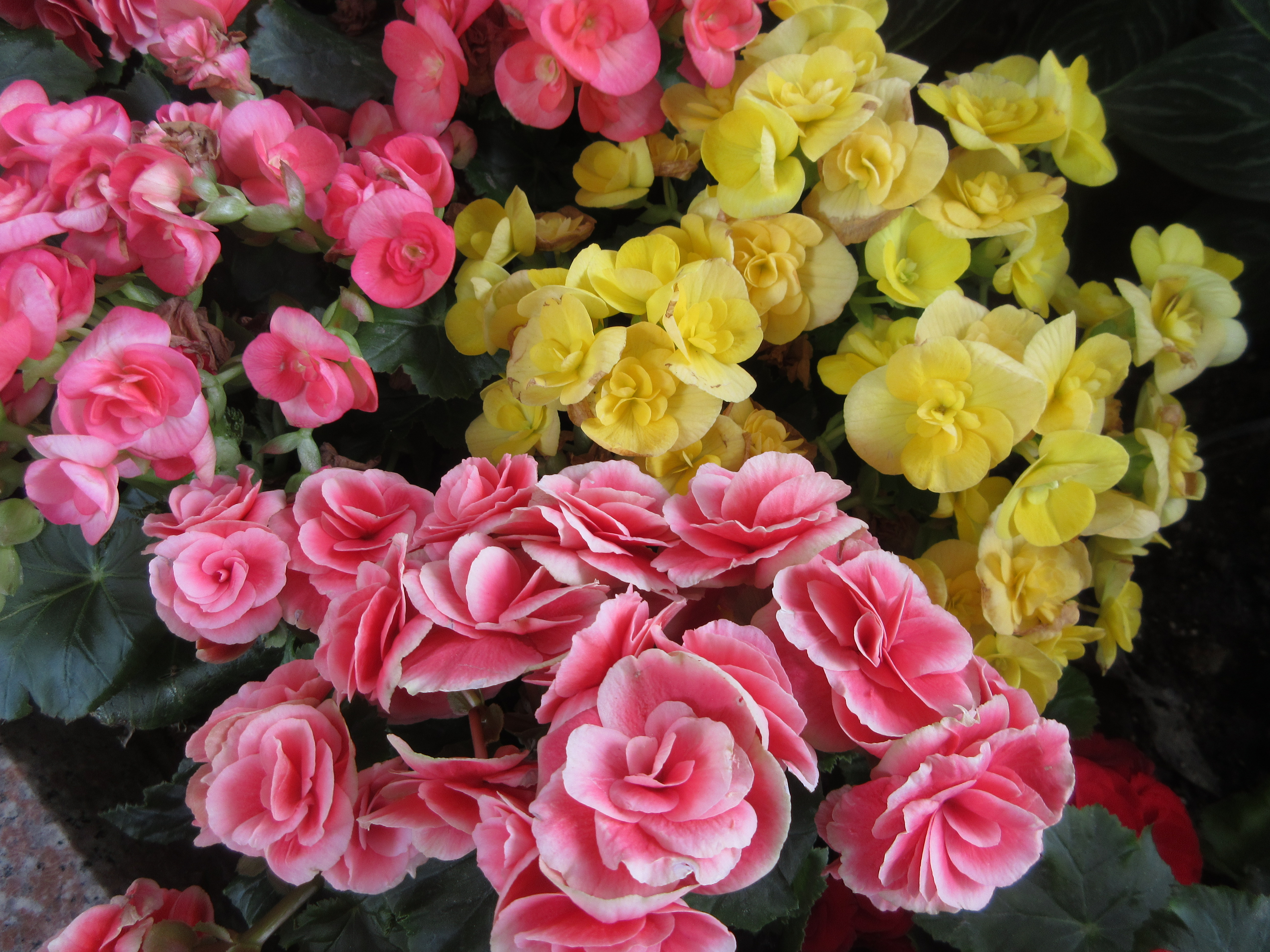 HK CWB 銅鑼灣 Causeway Bay 希慎廣場 Hysan Place green plant in October 2017